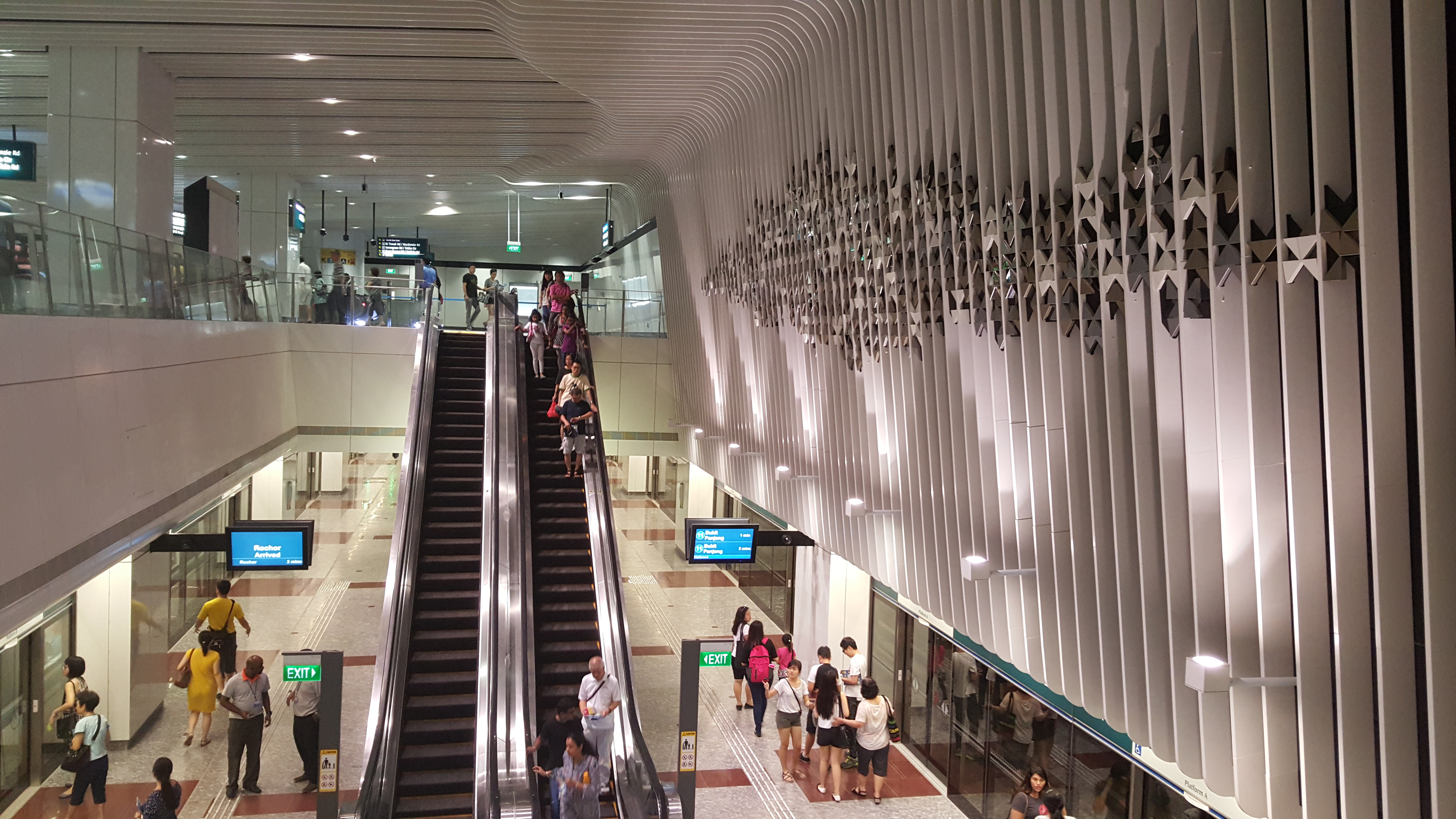 Taken on 5 Dec 15 during DTL2 open house.